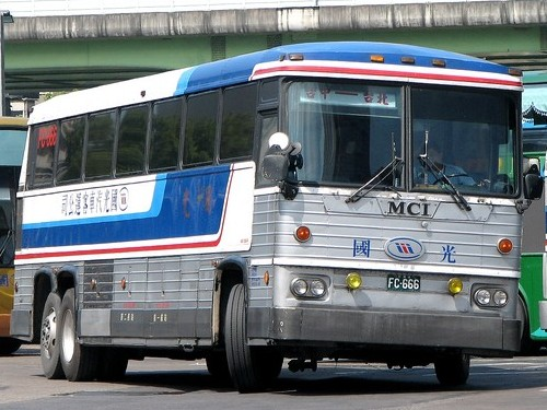 KingBus Co., Ltd. "Taipei - Taichung" line is operated with MCI bus.[1]